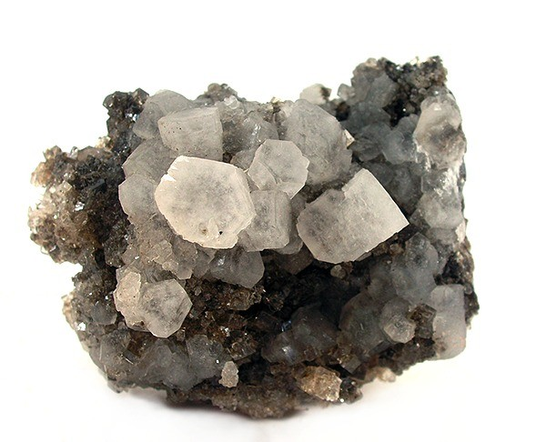 Aphthitalite Locality: Ghom Salt Dome, Qom (Ghom) Province, Iran (Locality at ) Size: 6.1 x 5 x 3 cm. A very rare sulfate, that is apparently stable, and comes at a surprising quality level form these vast salt deposits in Iran. This piece has numerous crystals to over 1 cm. Ex. Martin Zinn Collection.